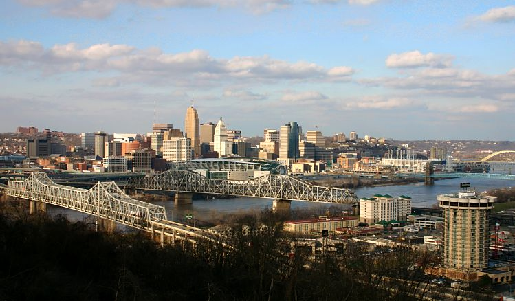 This view is from the Southwest, from Devou Park in Covington. Near the center of the skyline is the 49-story Carew Tower.